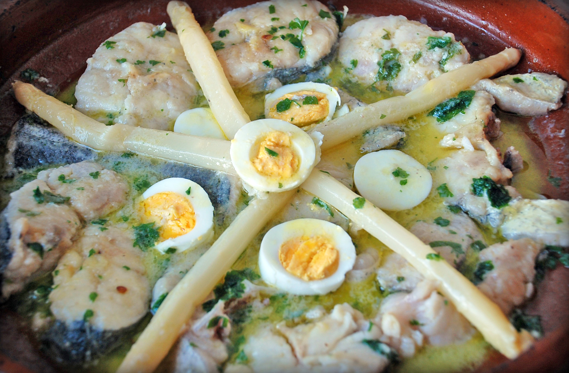 Cuisine of the Basque Country. Koskera hake fish (green sauce or Basque recipe).